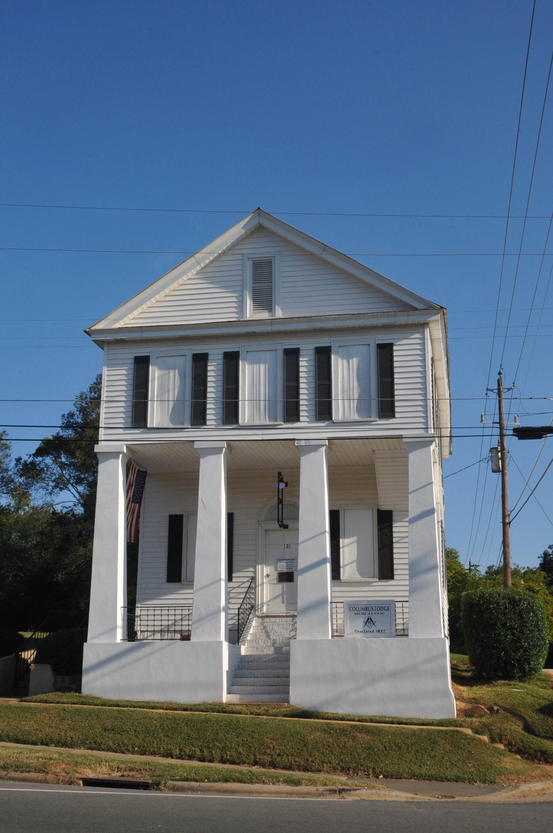 1838-1840 WITH A N 1849 GREEK REVIVAL PORTICO